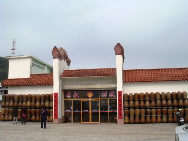 Matsu Distillery, Nangan Township, Lienchiang County, Fujian Province, Republic of China